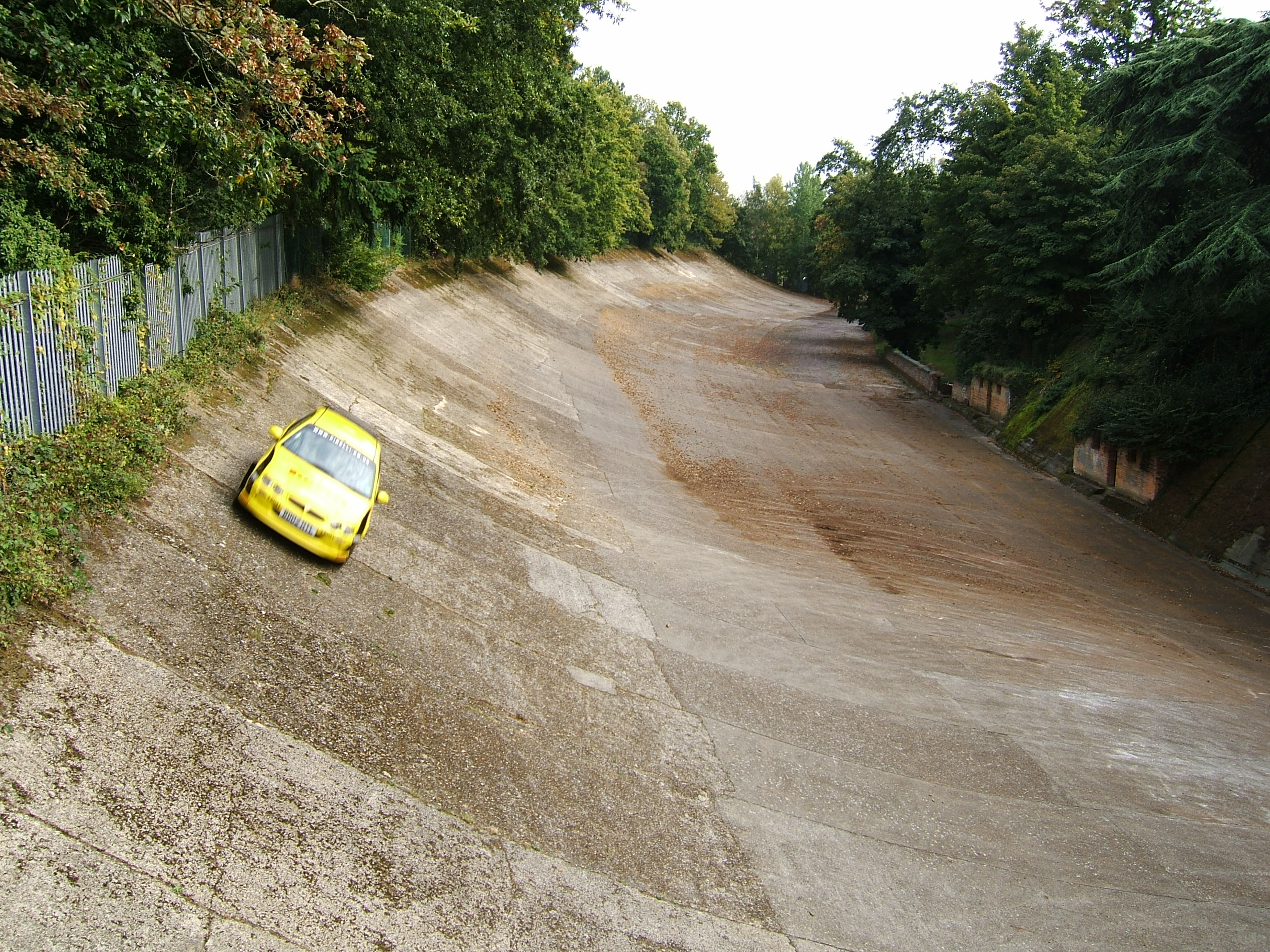 A modern MG rally car charges under the Members Bridge, over the Members' Banking, at Brooklands motor racing circuit, Surrey, UK. The abrupt abbreviation of the circuit which occurred post-WWII can be seen in the background.